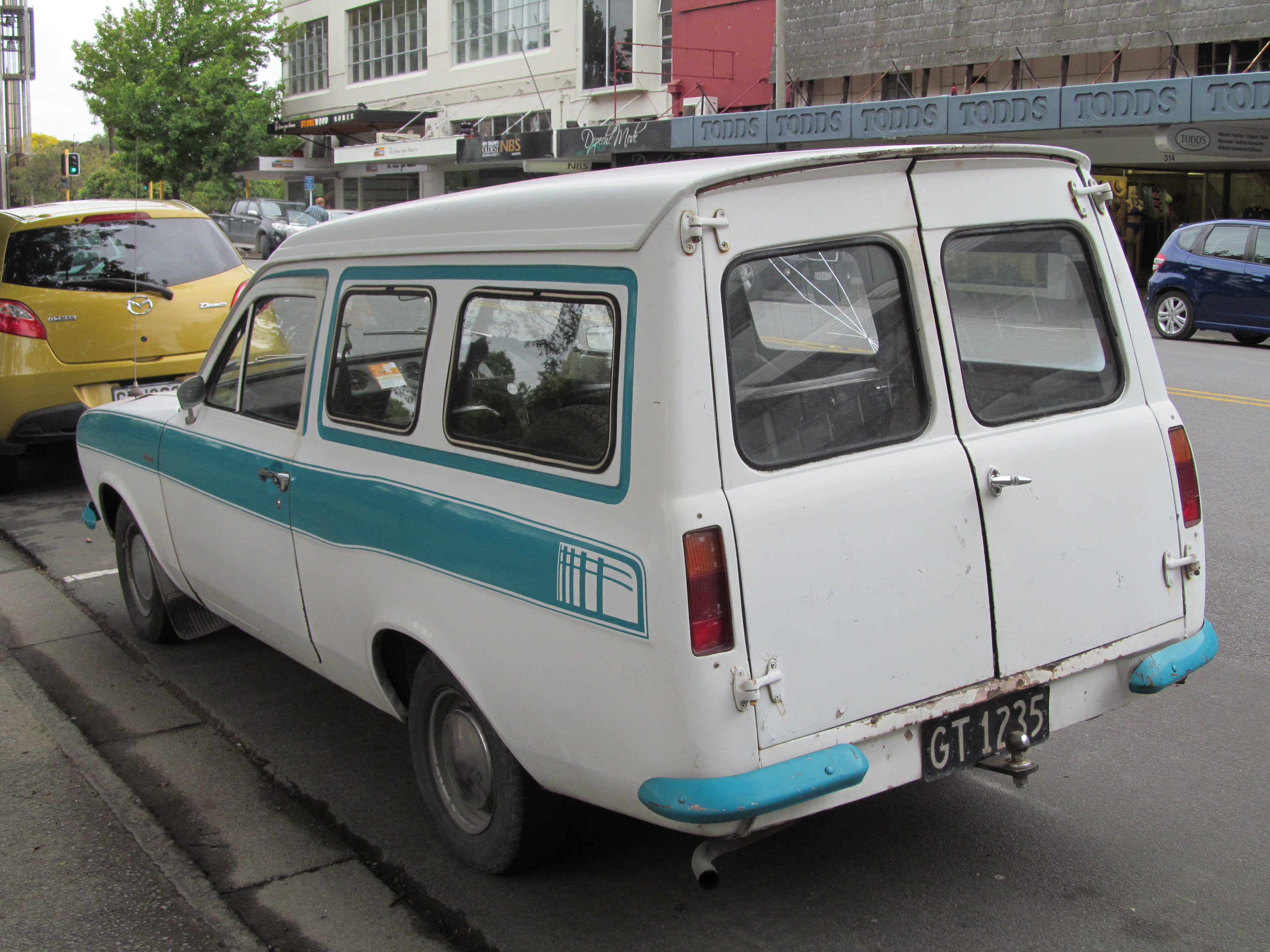 From here you can really see the wicked 70s decals, in all their teal glory! I believe this van has been in private hands since new, so it is unlikely to have ever been thrashed or abused, hence the condition.